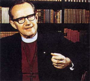 Bishop Bo Giertz of Gotenburg, Church of Sweden.